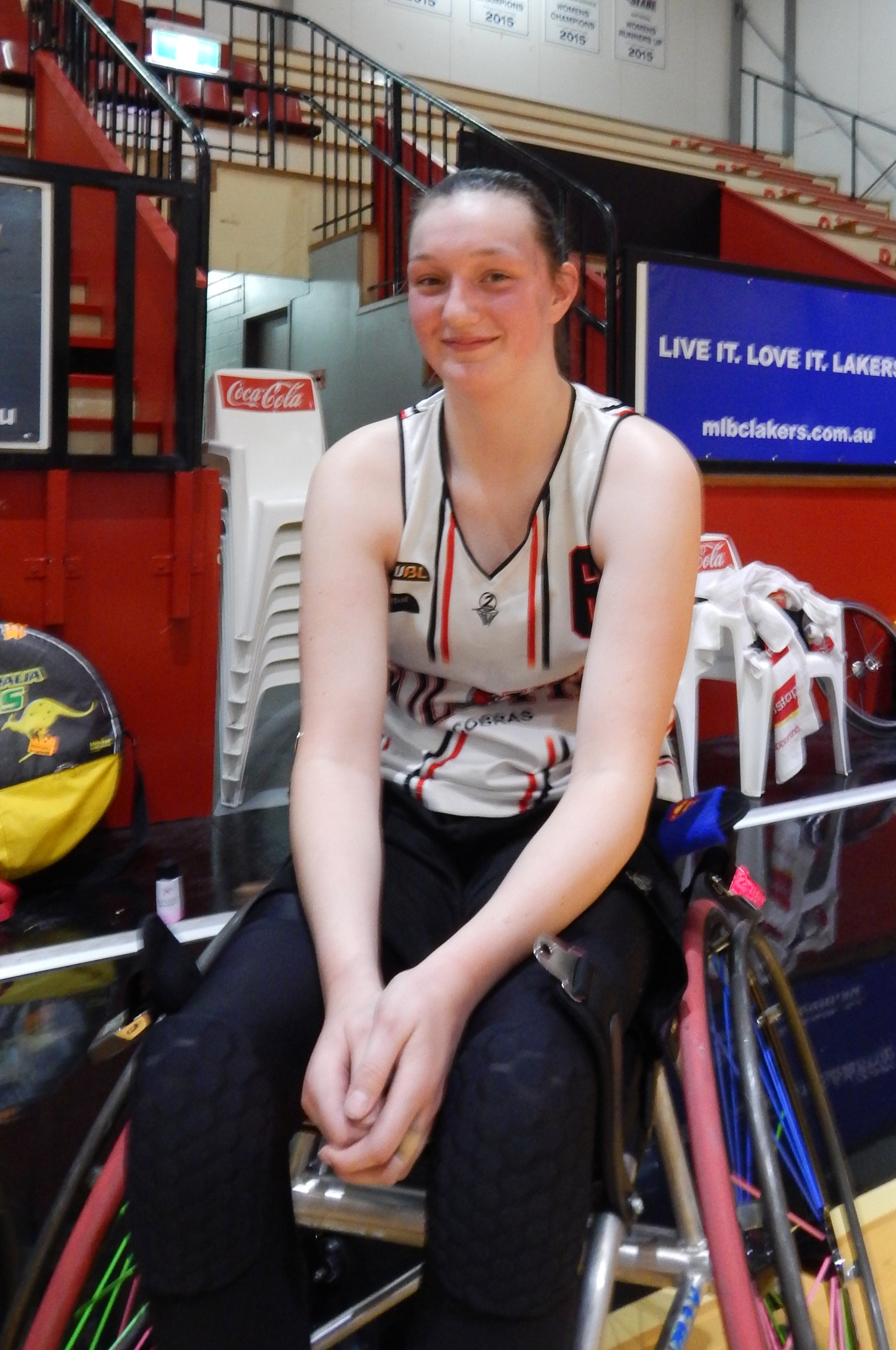 Teisha Shawell of the Kil;syth Cobras